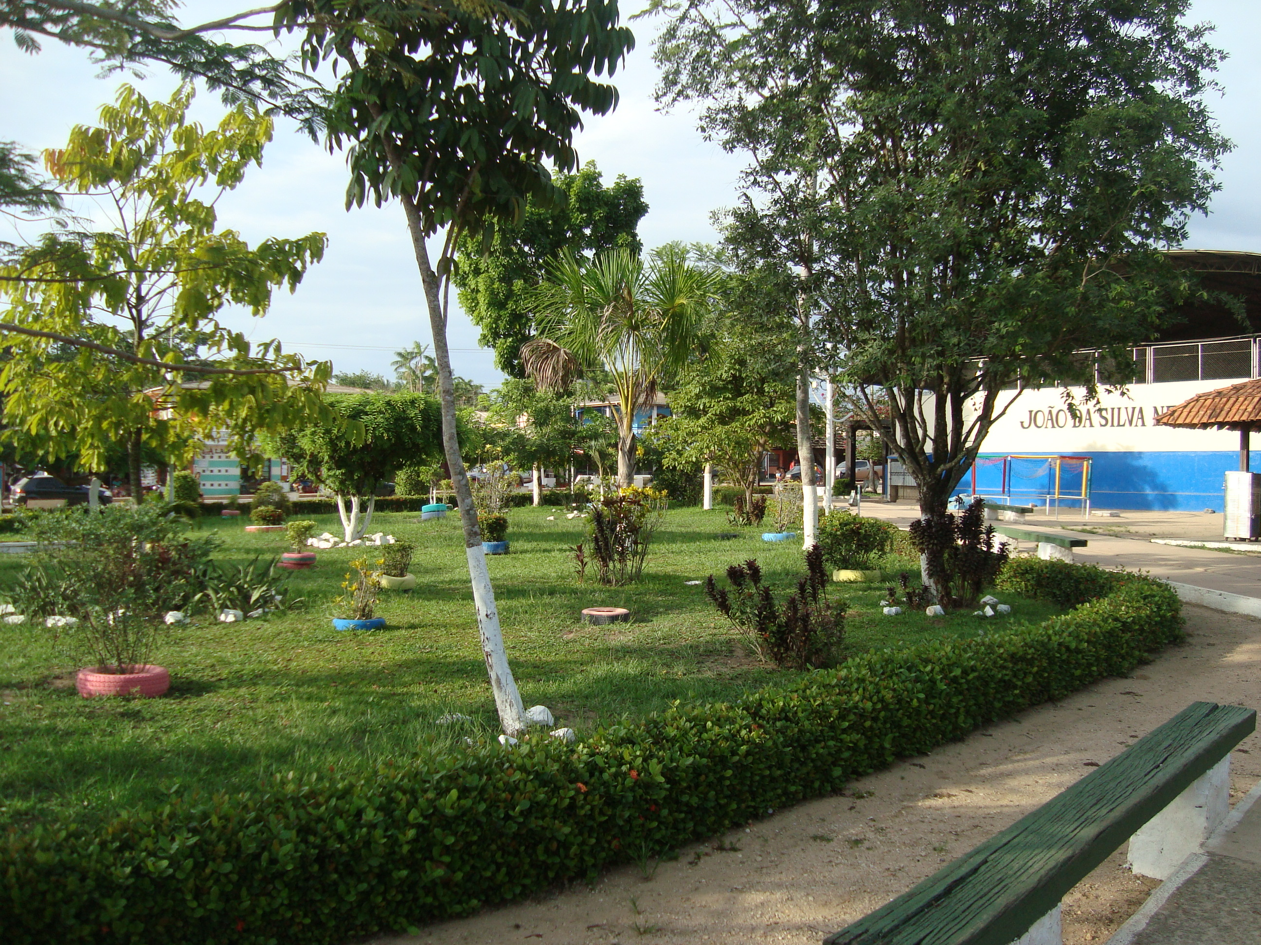 Park in Laranjal do Jari, Amapá, Brazil